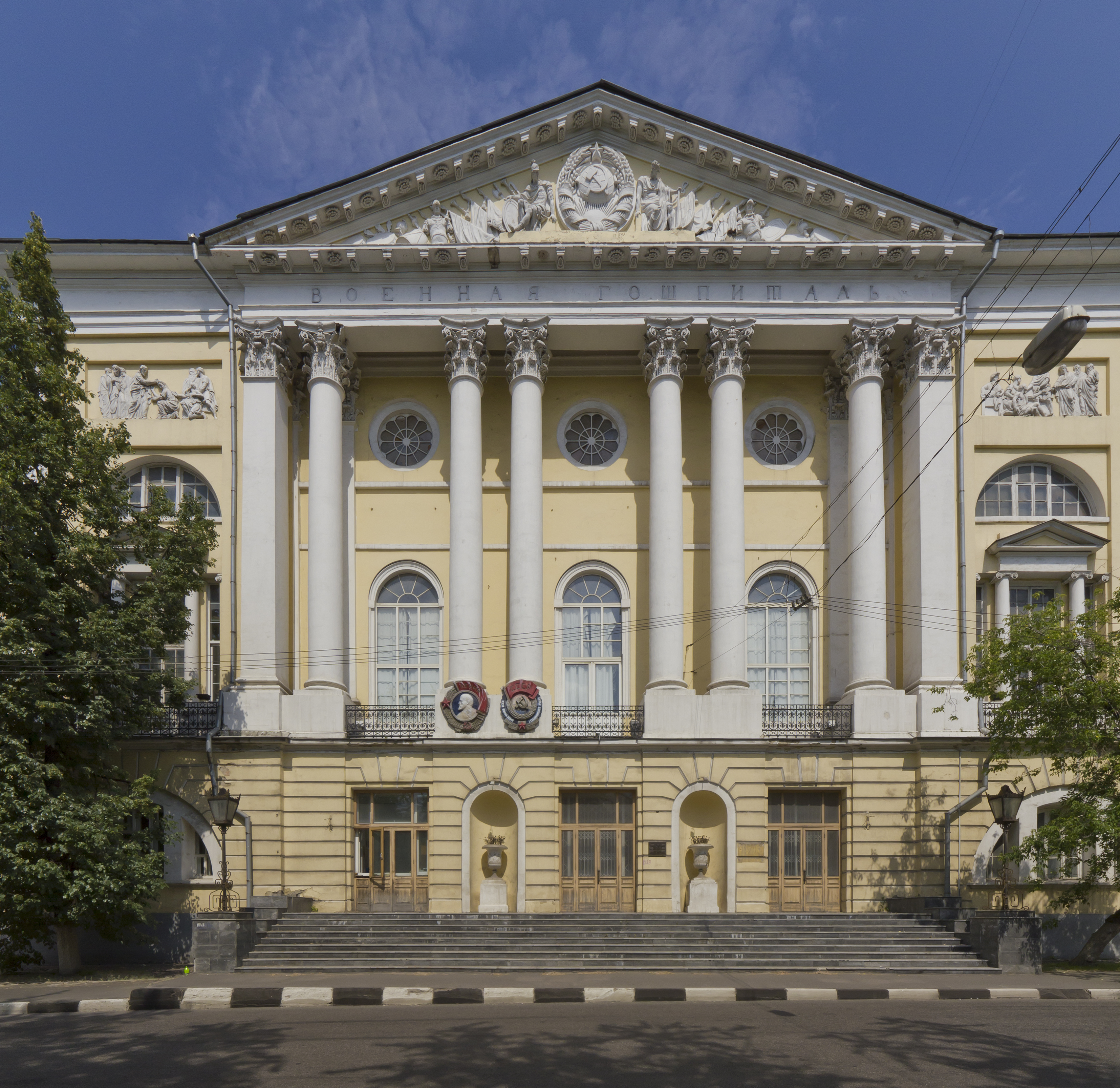 Main facade of Burdenko Military Hospital in Lefortovo, Moscow